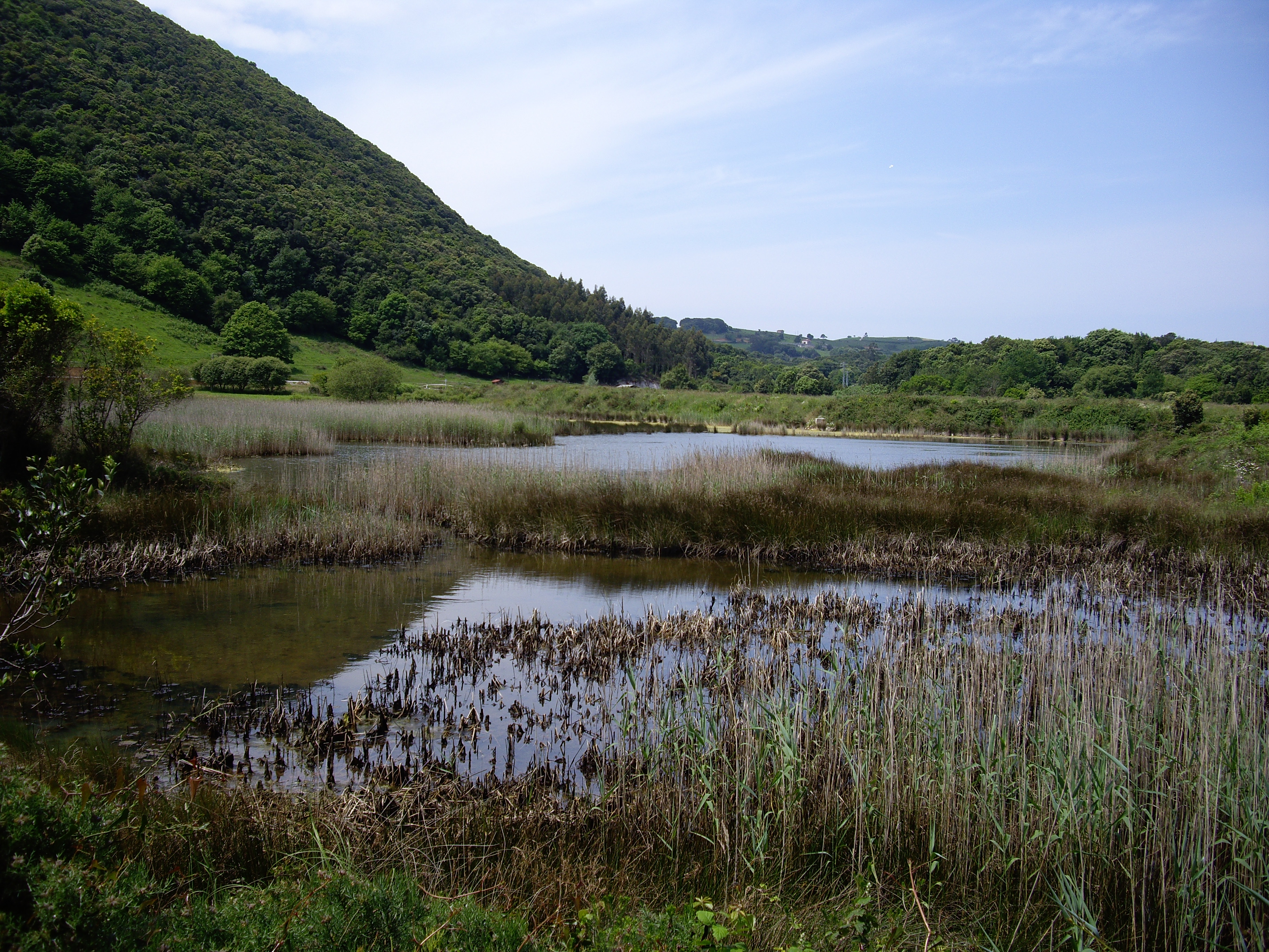 El Joyel Marsh, in Arnuero and Noja, Cantabria, Spain. The Mount Cincho is on the left side.